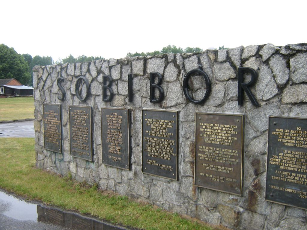 Sobibor Extermination Camp